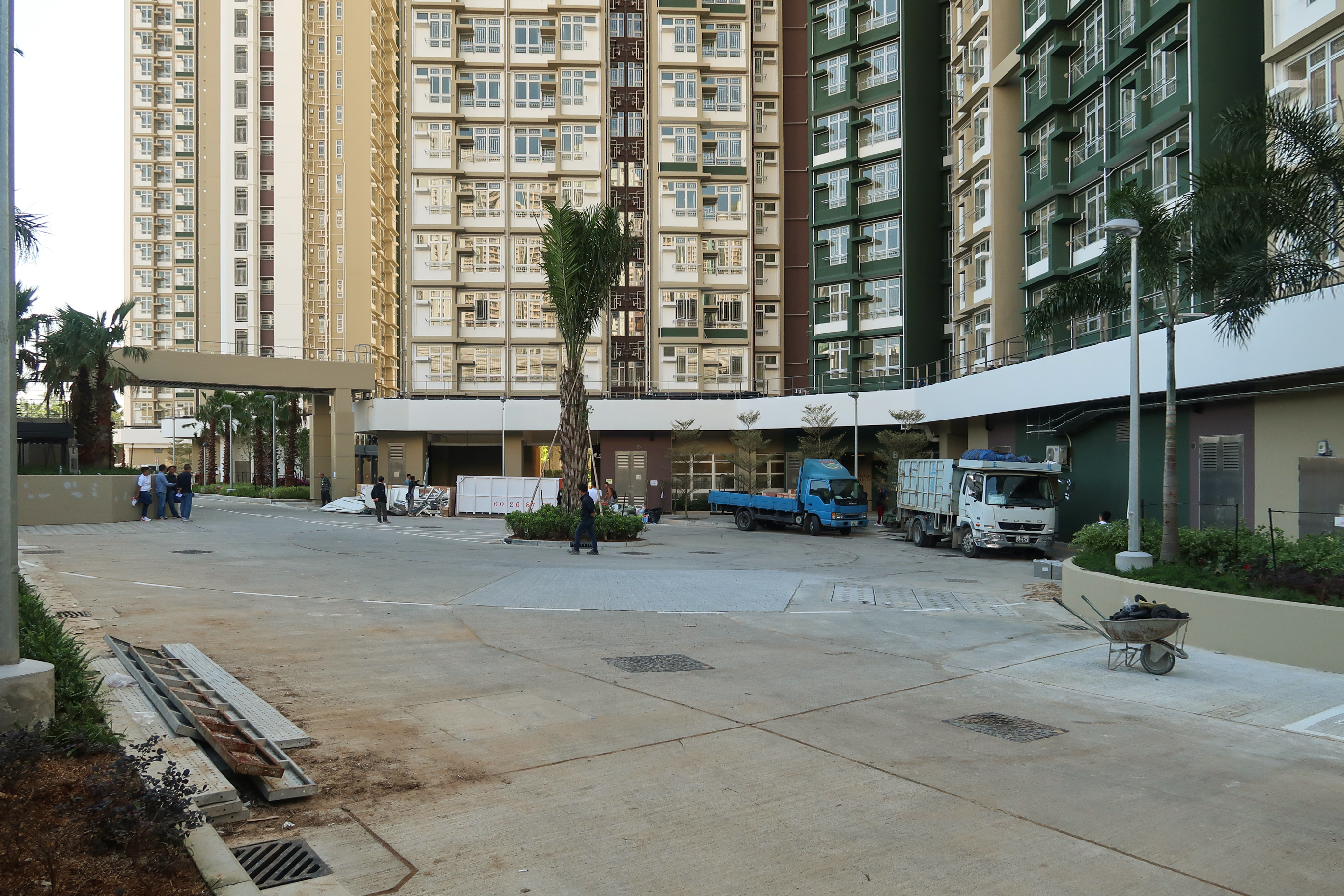 Ping Yan Court EVA